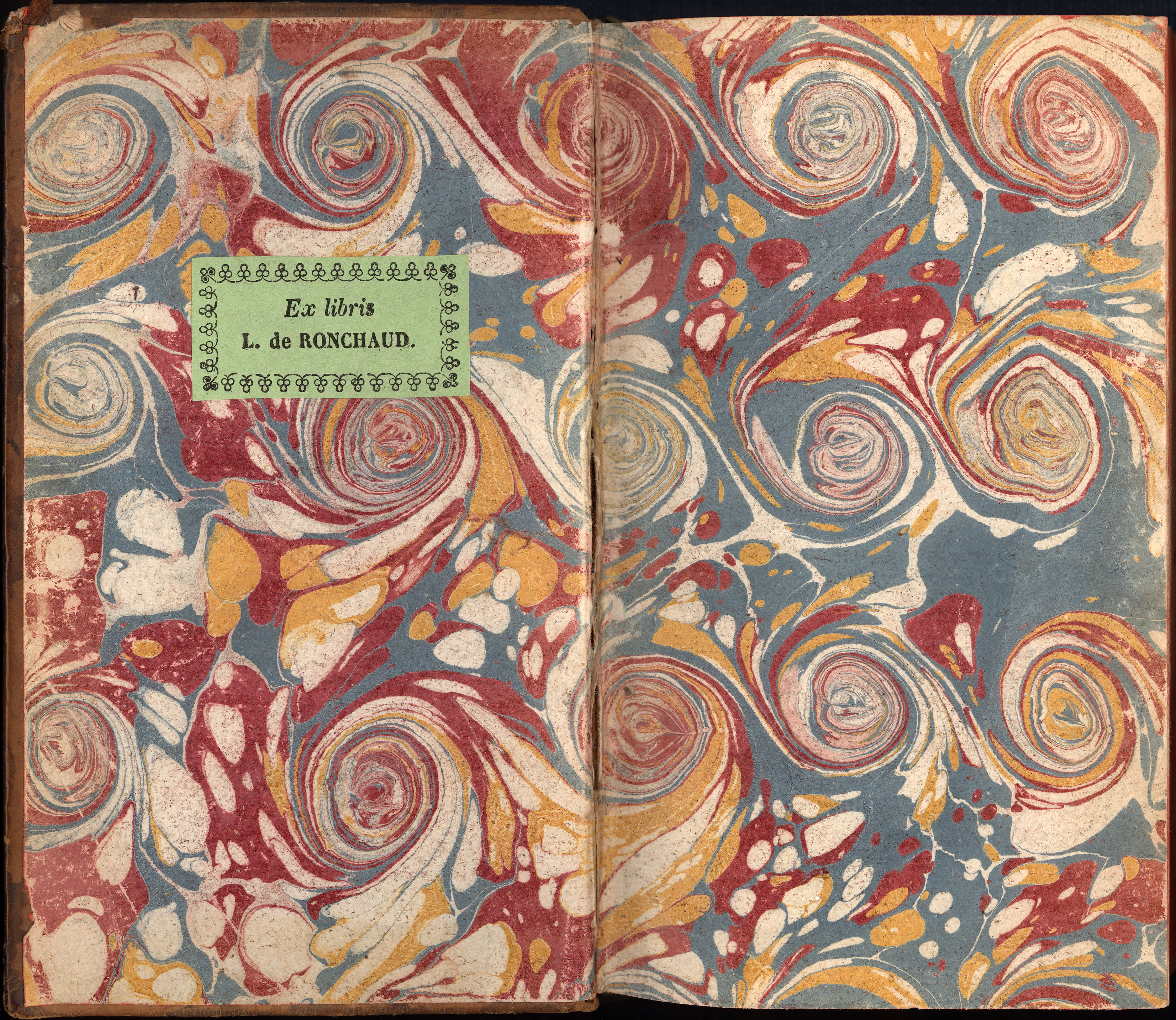 Endpaper of a book manually bound in France around 1735 with handcrafted marbled paper. — The book is an edition of Horace’ poems (Œuvres d’Horace), Paris 1735.